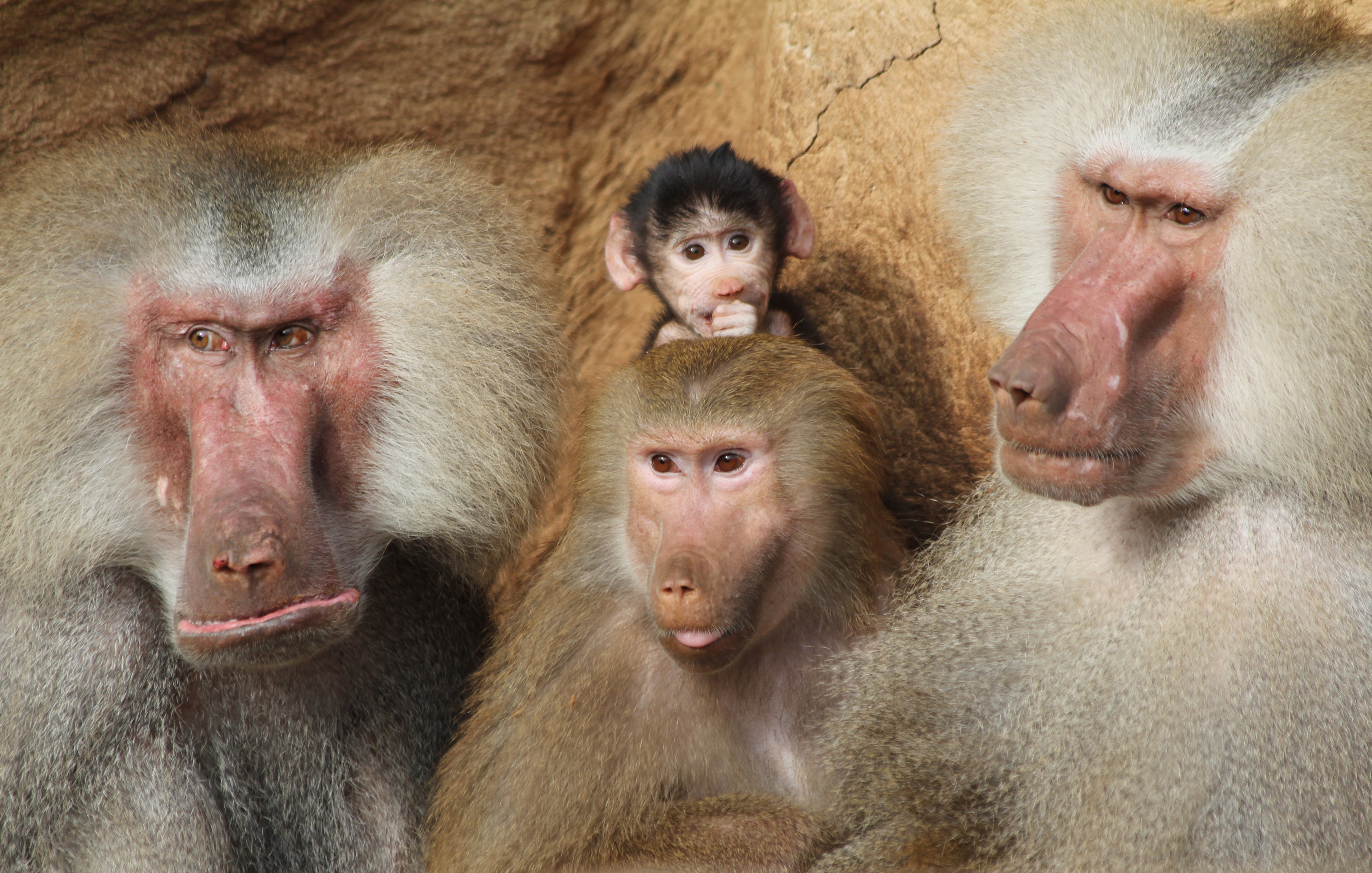 Baboons (Papio hamadryas) in the Cologne Zoo, Germany.